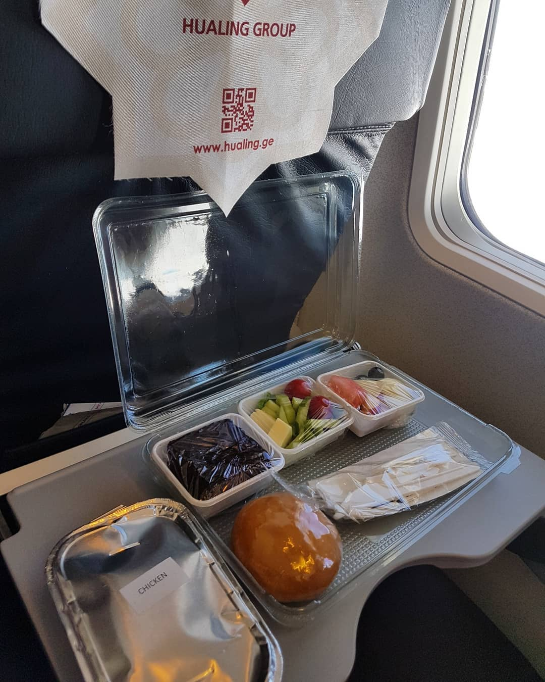 Airline meal on a Boeing 737-800 from MyWay Airlines